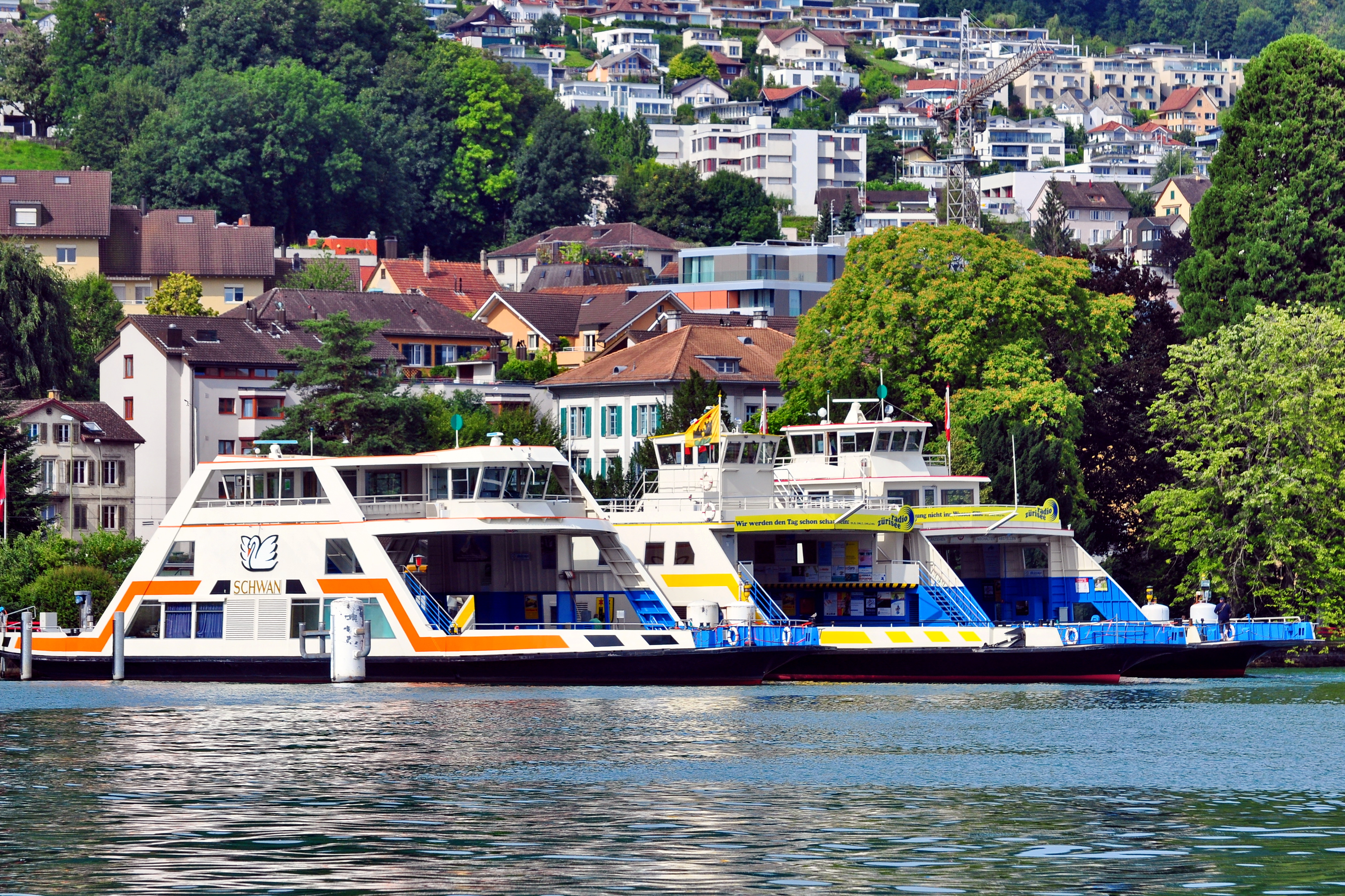 The ferries Schwan (1969), Meilen (1979) and Horgen (1991) at Horgen ferry terminal as seen from Zürichsee-Schiffahrtsgesellschaft (ZSG) MS Wädenswil on Zürichsee in Switzerland